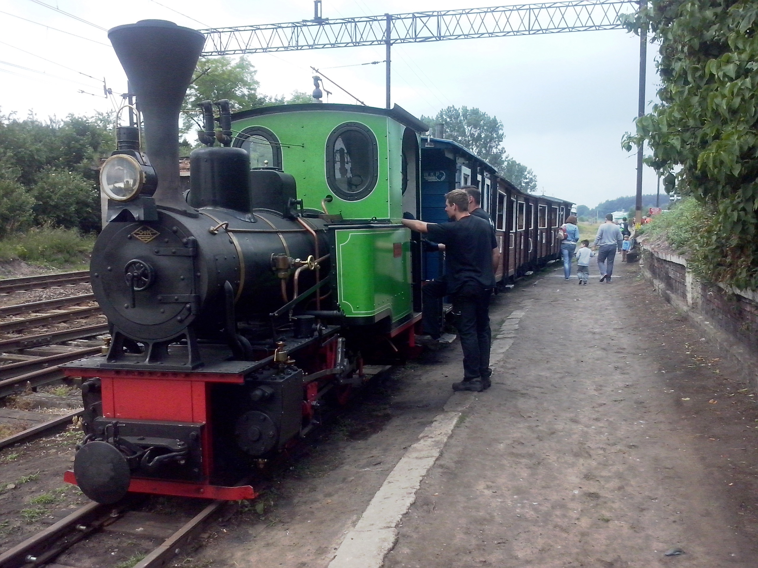 Orenstein & Koppel steam locomotive No. 7697 on Białośliwie Narrow Gauge Railway